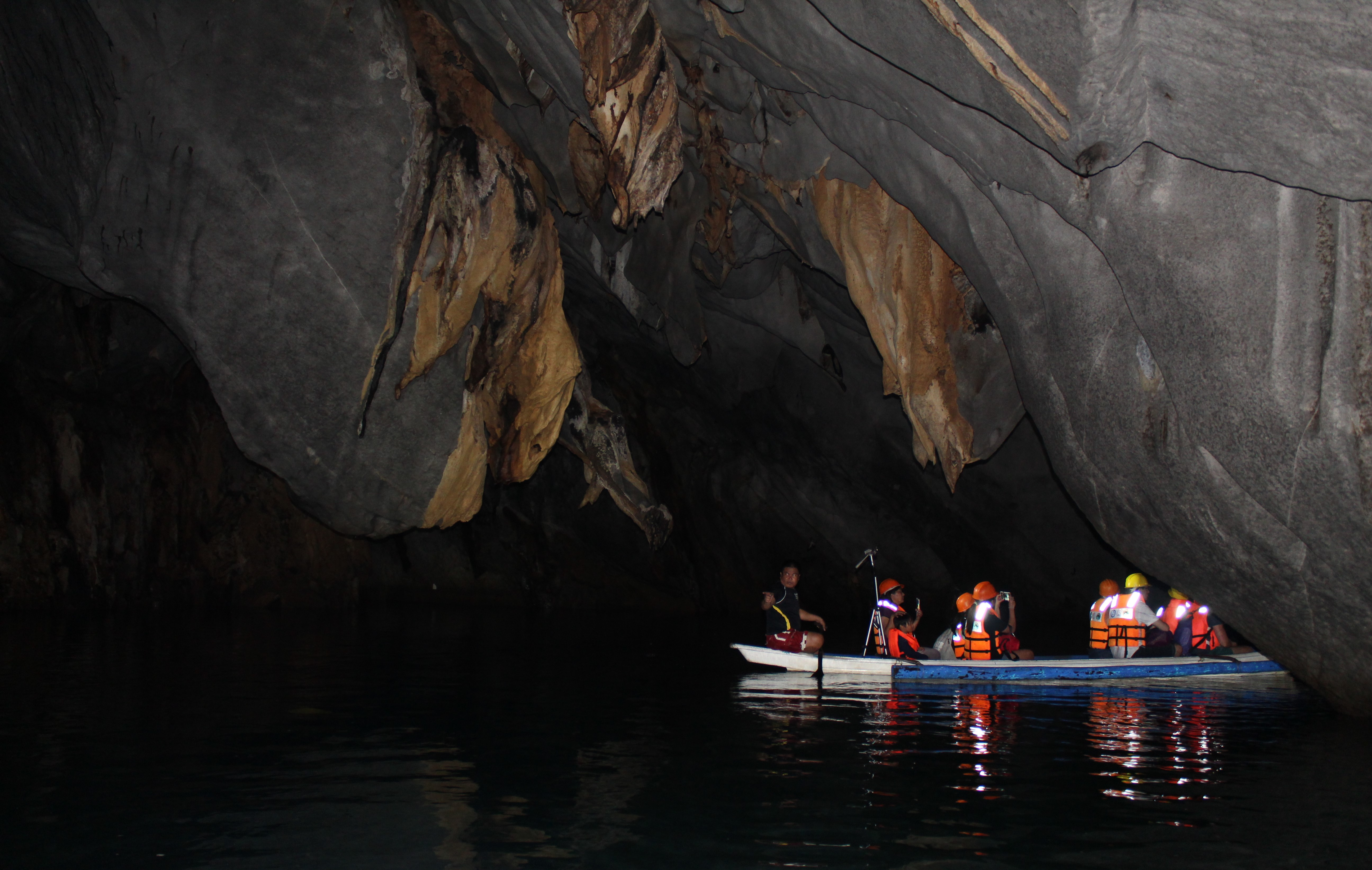 Puerto Princesa Subterranean River National Park: 10.1926° N, 118.9266° E